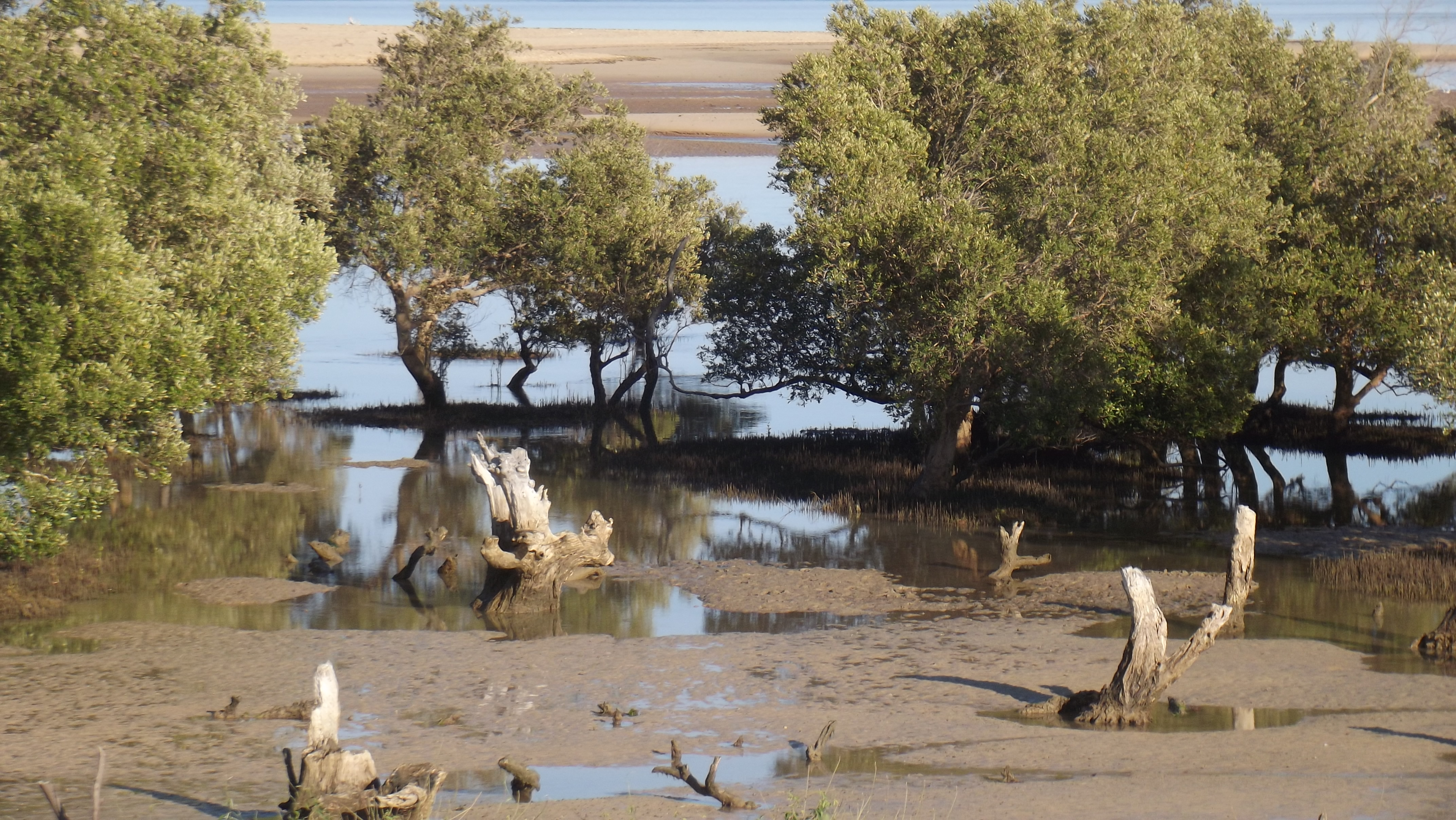 Mangrove on the Westcoast of Madagascar between Ifaty and Belalanda